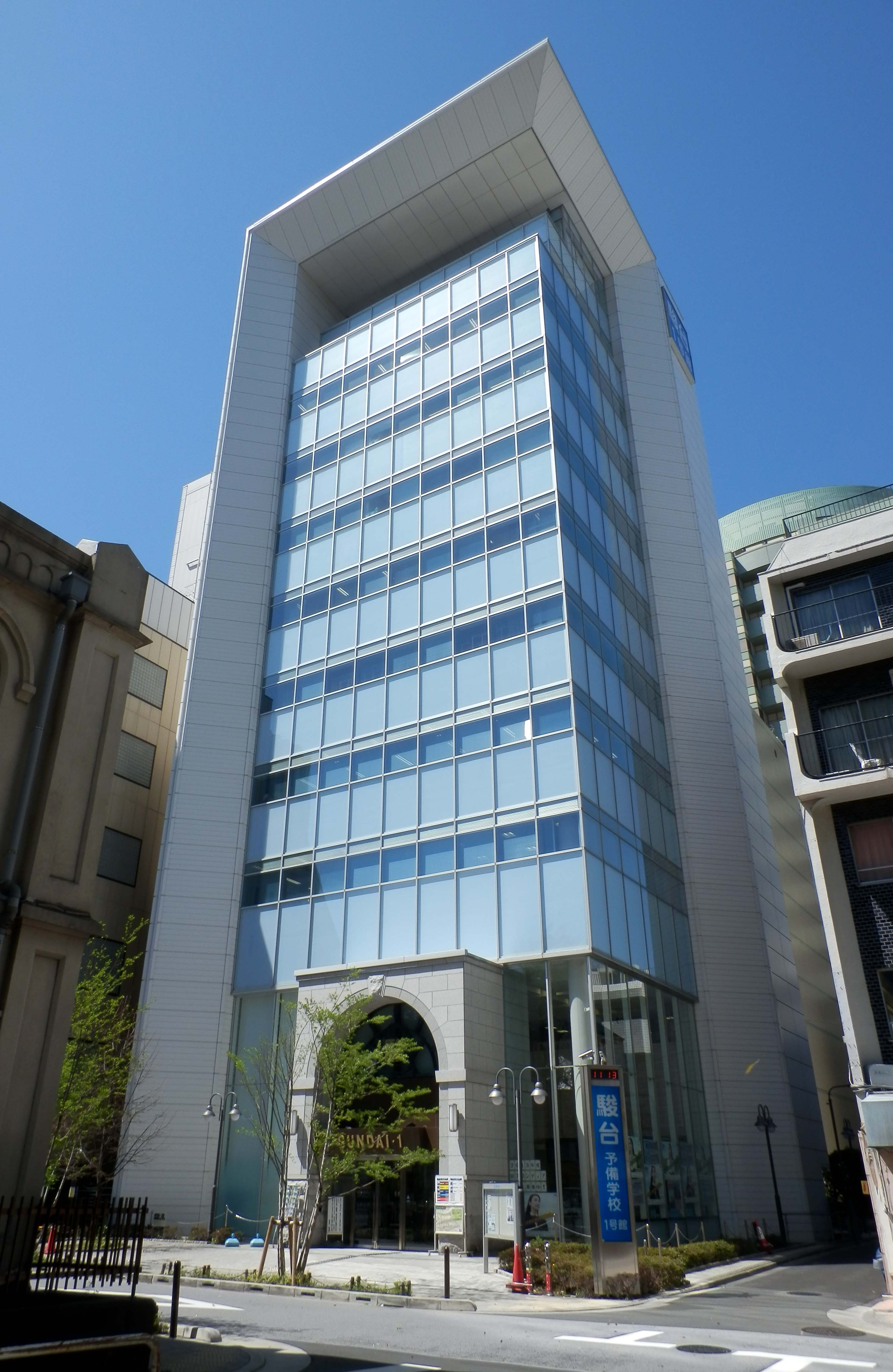 Sundai Preparatory School 1st Bldg (Kanda-Surugadai, Tokyo, Japan)